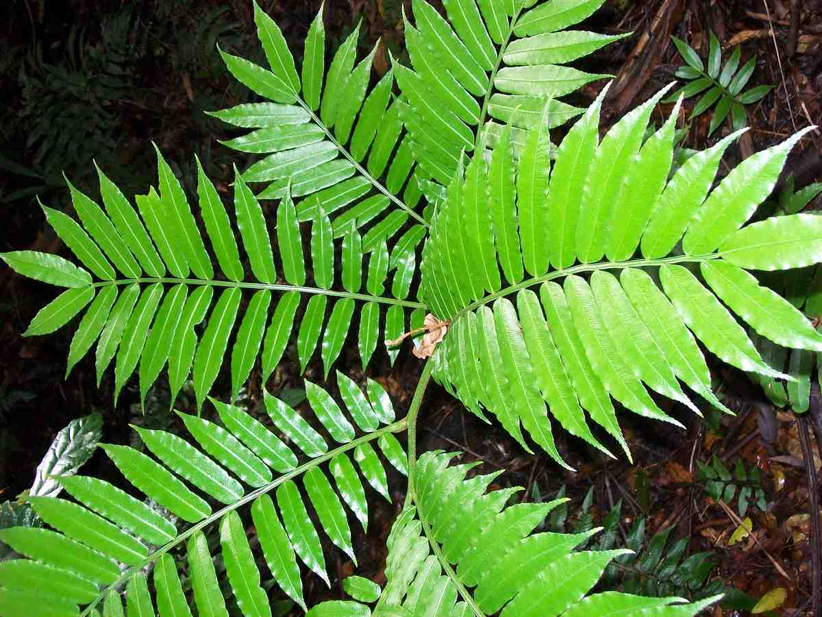 Angiopteris evecta at Coffs Harbour Botanic Gardens, Australia